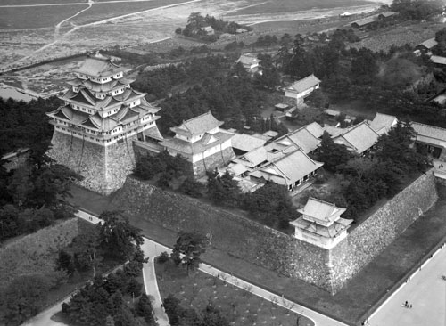 Aerial photo of Nagoya Castle in 1933.10.1